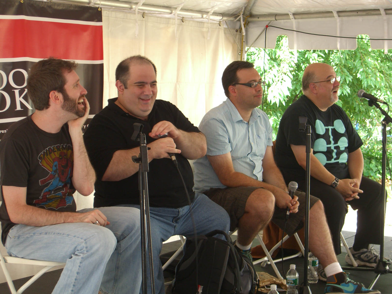 Comic book creators Jim McCann, Dan Slott, Fred Van Lente and Peter David, speaking on a panel on comics writing at the 2009 Brooklyn Book Festival.